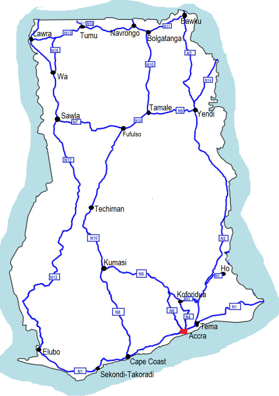 Ghana national highway network with labels